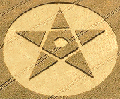 A wheat Barnstar inside a crop circle, designed for Project Paranormal